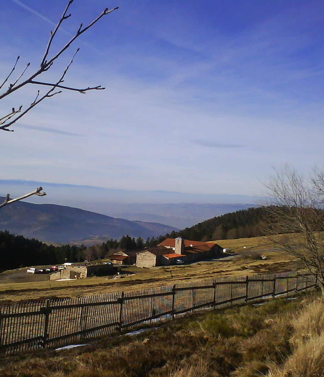 La Jasserie du Pilat (France)